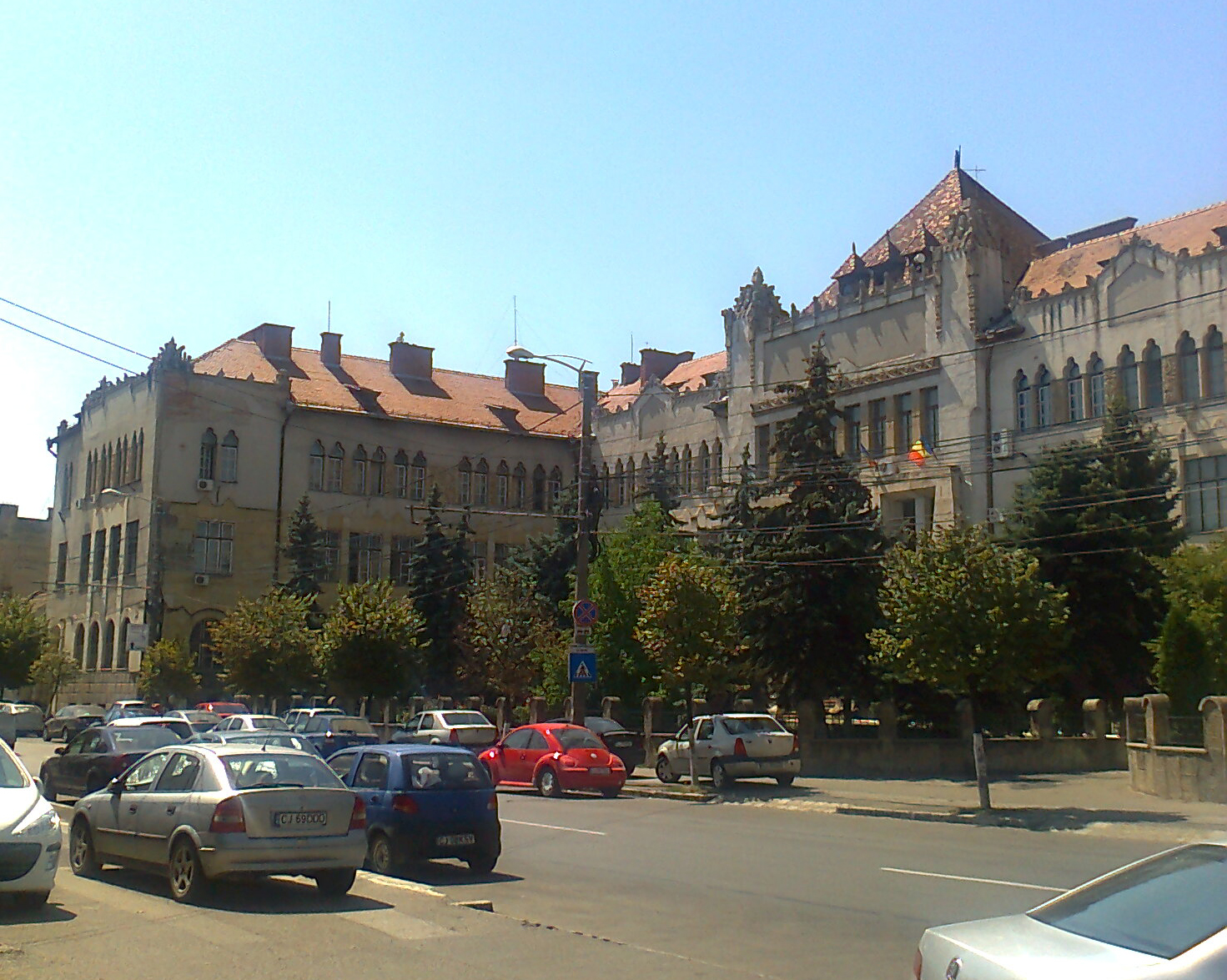 Built by Rátz Mihály in 1939